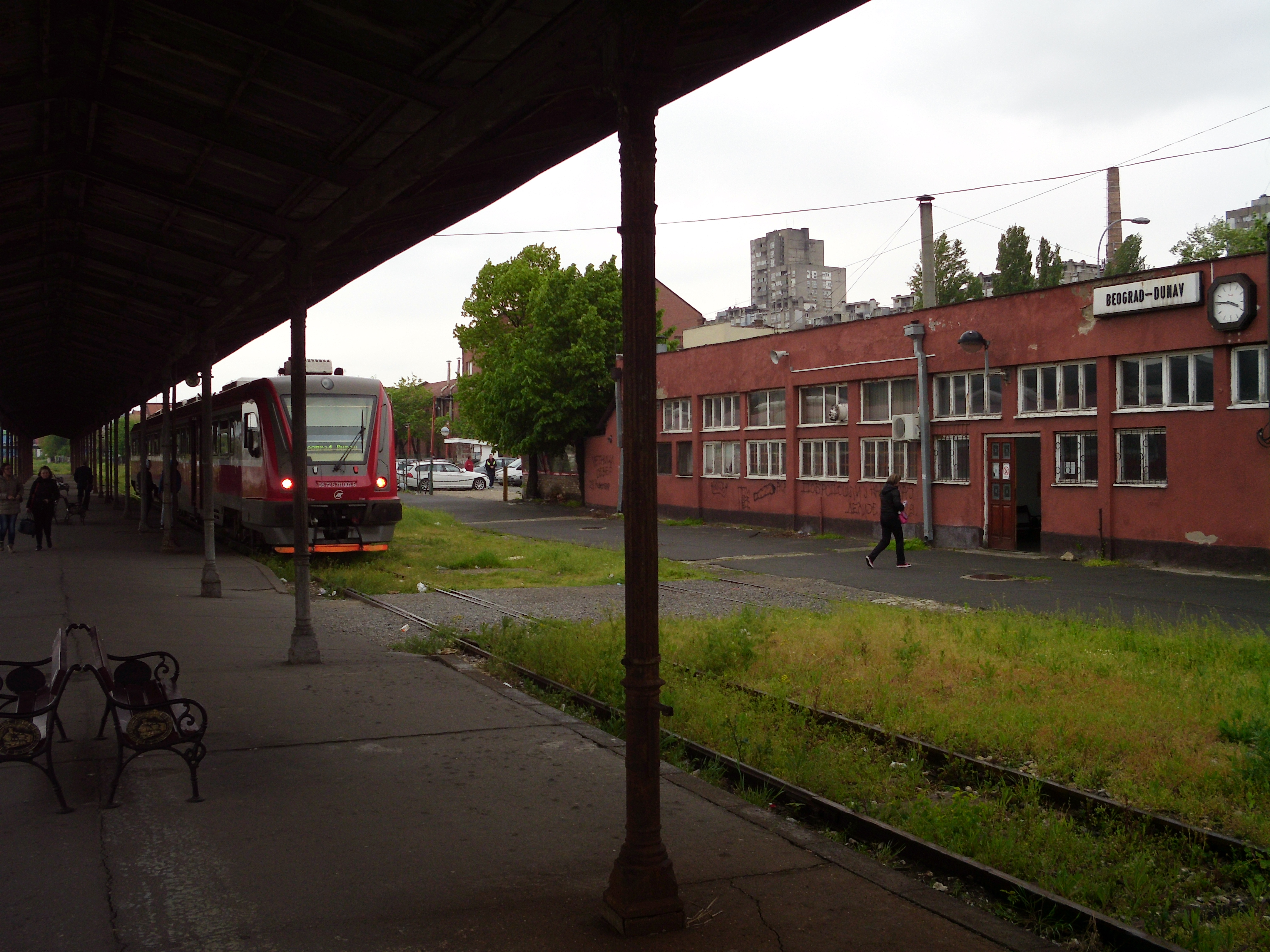 Commuter train of Serbian railways (to/from Pančevo) at Beograd Dunav station in Belgrade, Serbia.